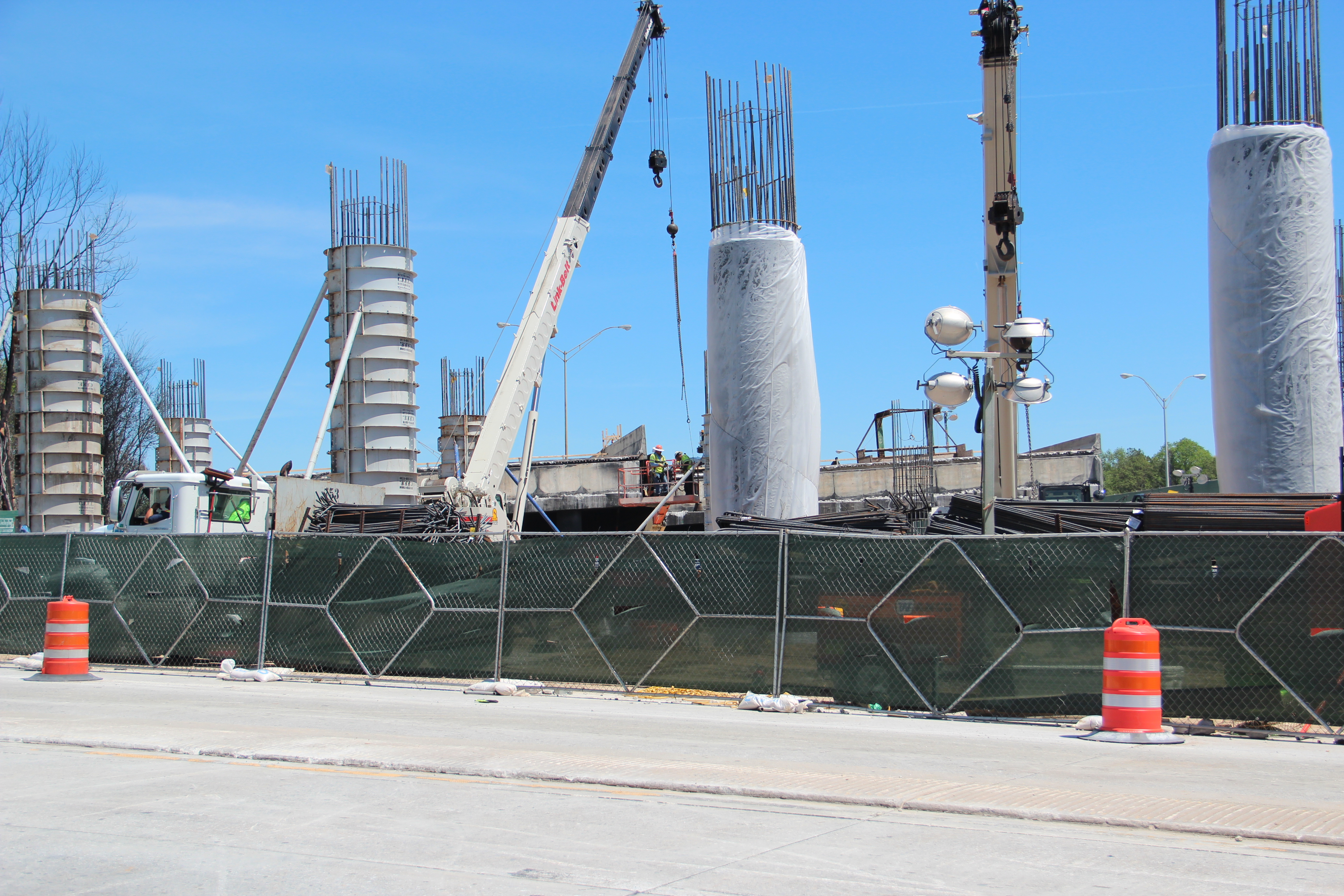 Repair work on the I-85 bridge over Piedmont Road